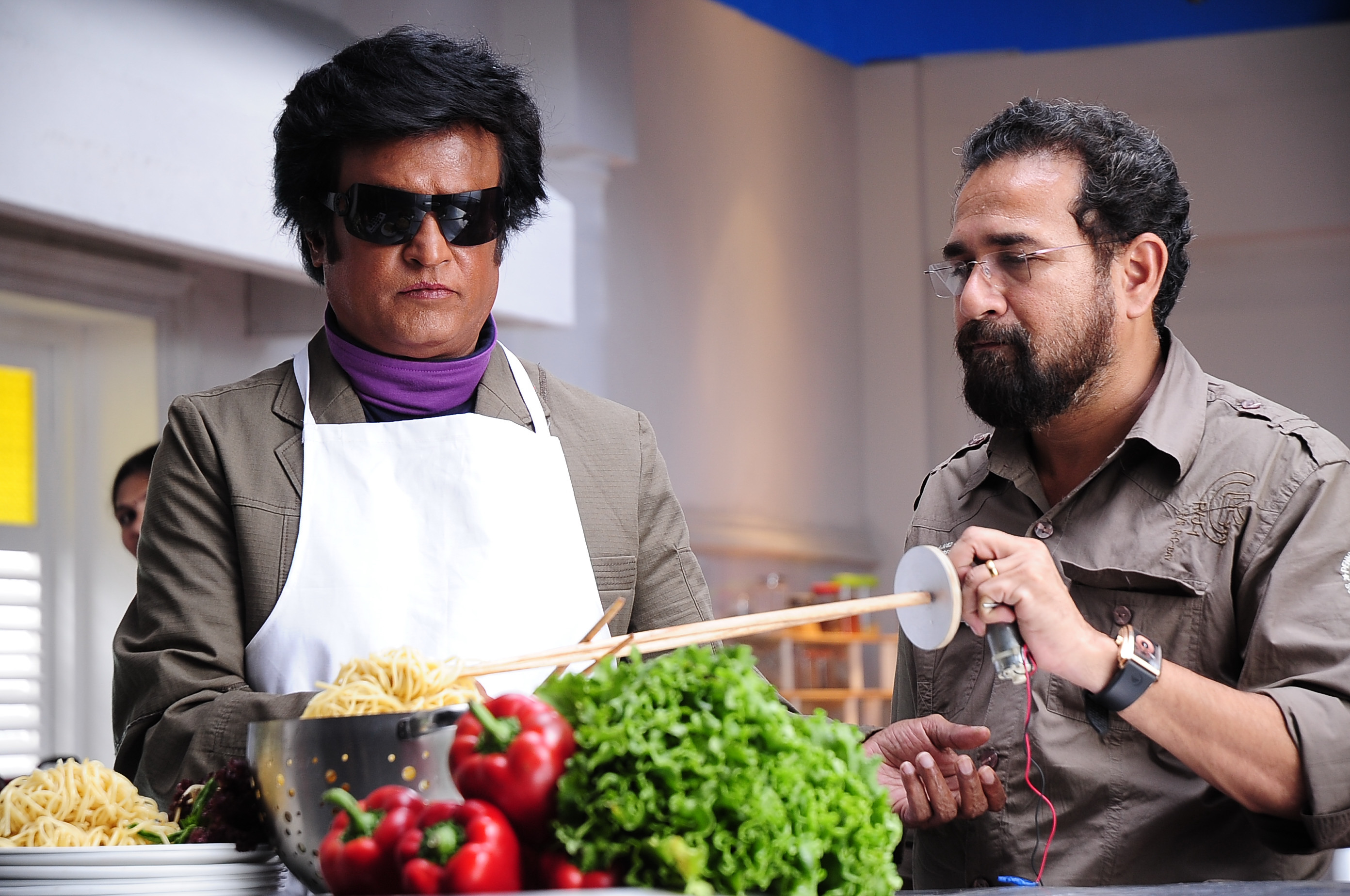 working still Robo With Rajini